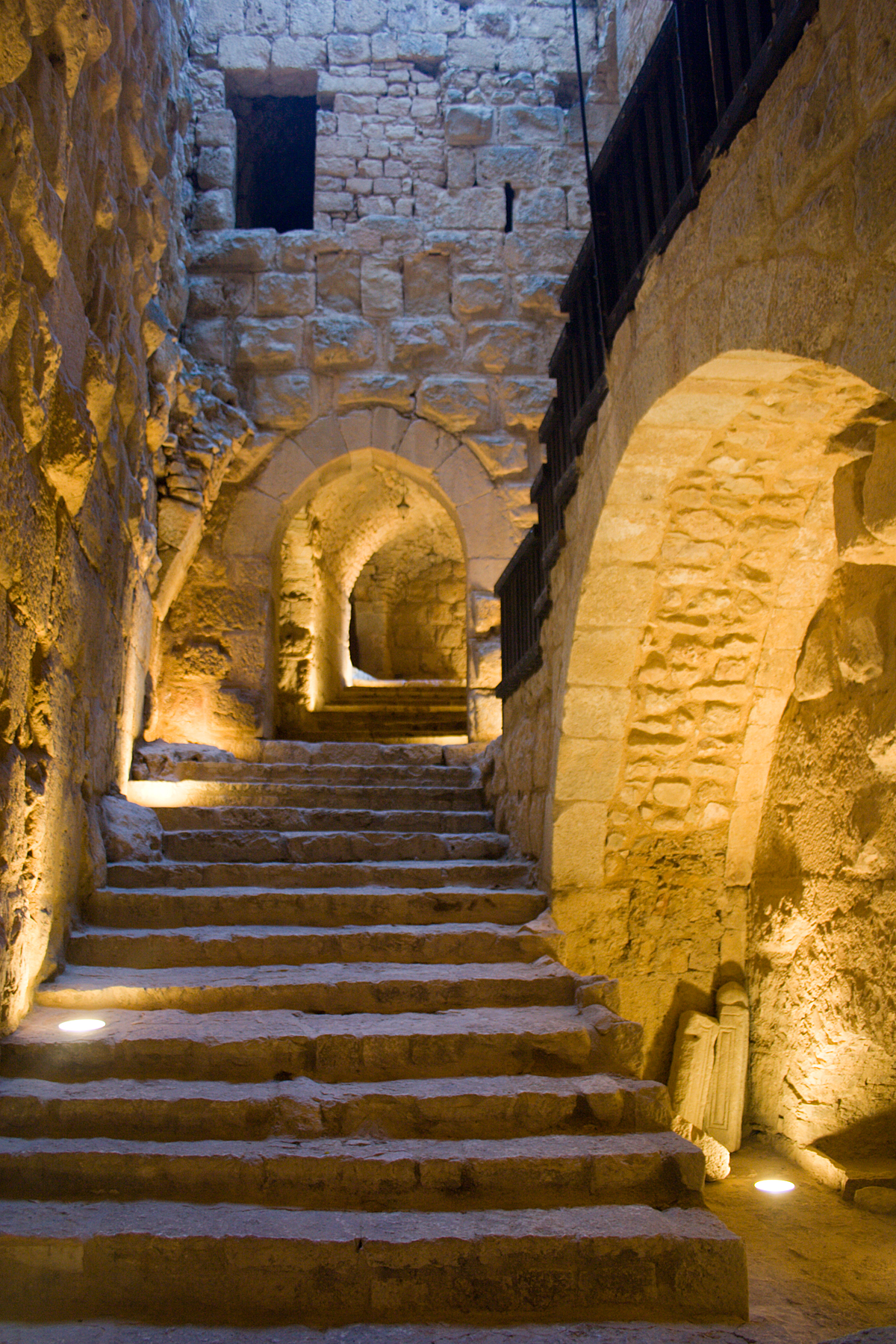 Mysterious steps lead up through a maze of cooridors in Ajlun's Rahbad Castle.